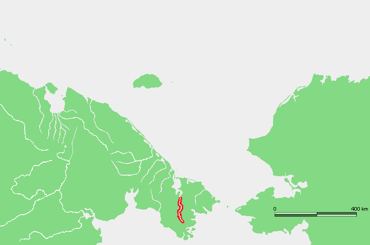 location map